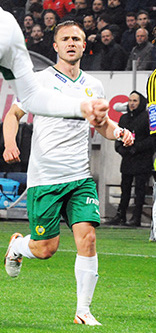 Mats Solheim playing for Hammarby in a game against AIK on 4 May 2015.